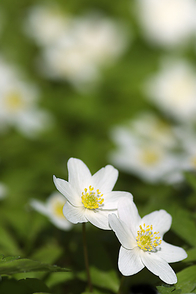 Anemone nemorosa, two windflowers with an out of focus .